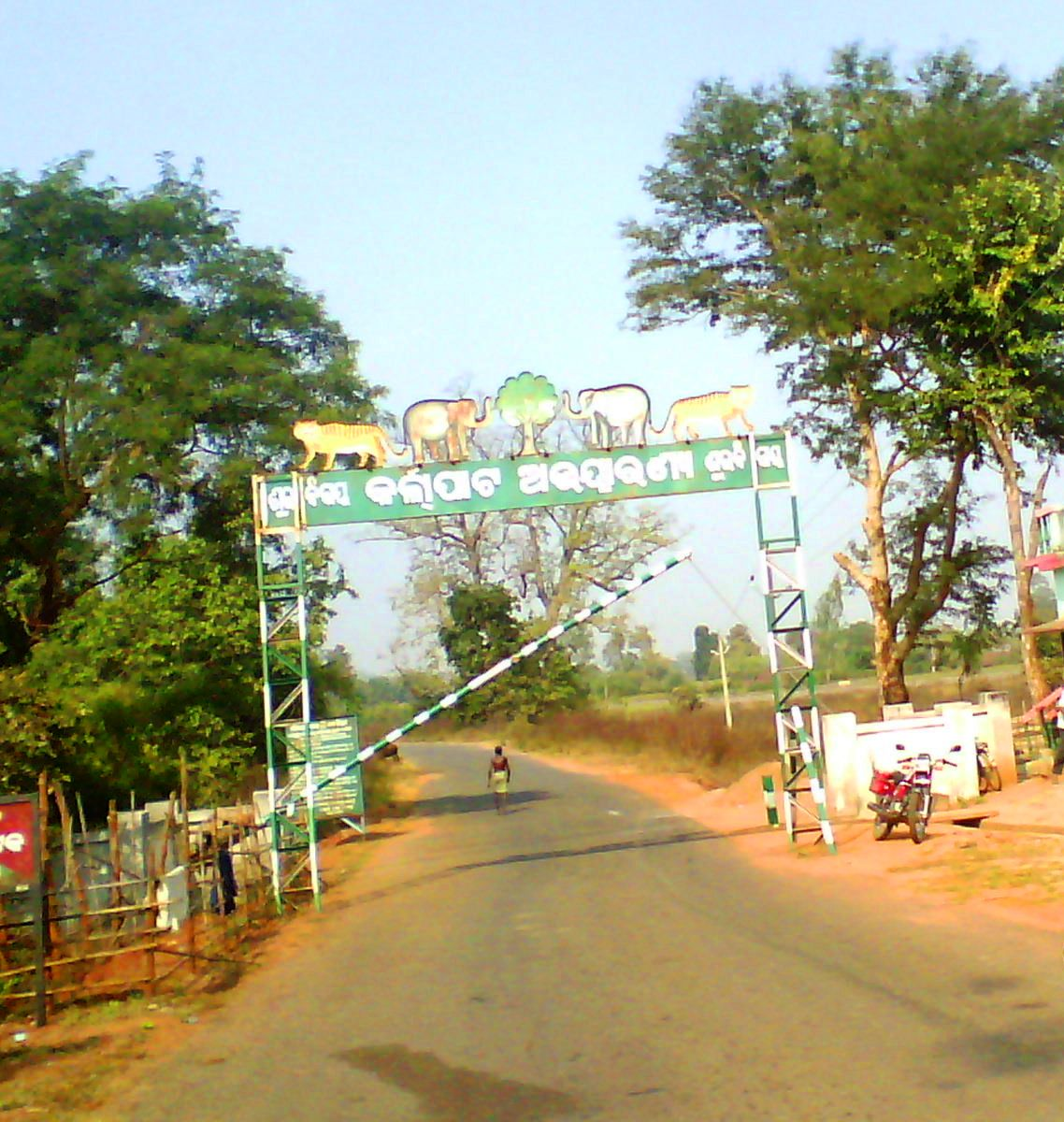 Karlapat Check Gate